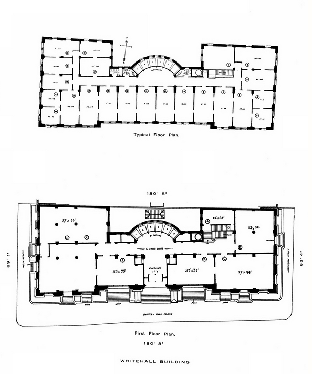 Original floor plans of the Whitehall Building, 17 Battery Place, New York City. Opened 1904. Originally an office building; converted to a residential building in 1999.